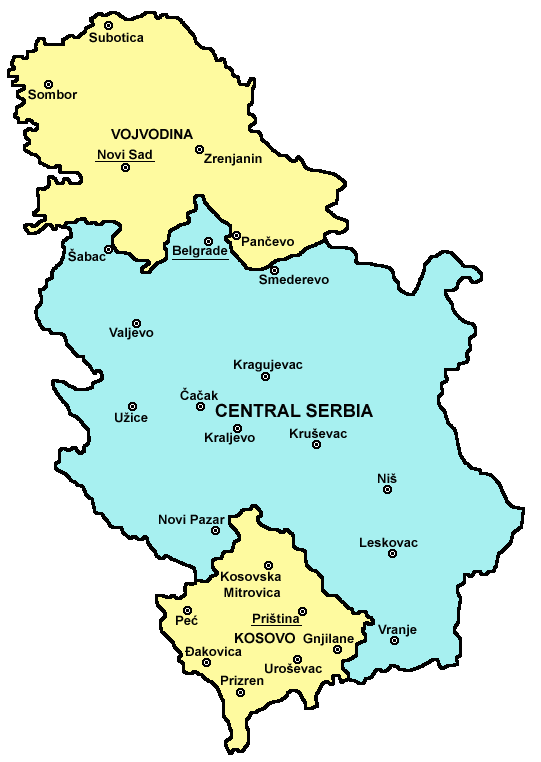 map of administrative divisions in Serbia from 1959 (when Leposavić municipality was excluded from Central Serbia and included into Kosovo) to 2008 (when Kosovo declared independence) and also, by the view of Serbian government and part of international community, from 2008 to 2009 (when Serbian authorities adopted a law that formed 5 new statistical regions in the territory formerly known as Central Serbia).